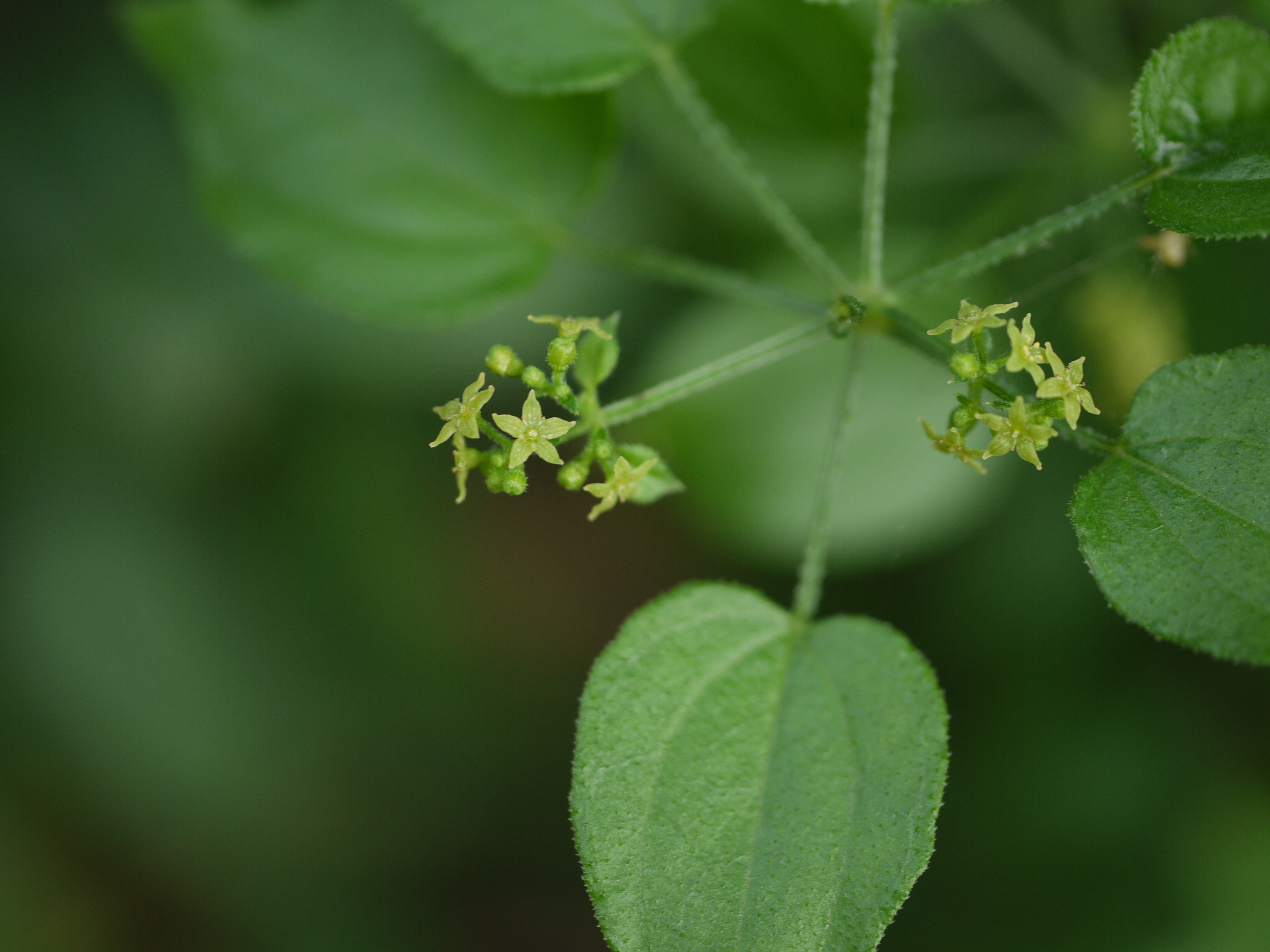 Rubiaceae (madder, bedstraw, or coffee family) » Rubia cordifolia L. ROO-bee-uh -- Latin: ruber (red), referring to the reddish dye obtained from the roots of this plant ... Dave's Botanary kor-di-FOH-lee-uh -- heart-shaped leaf ... Dave's Botanary commonly known as: common madder, Indian madder • Assamese: মজাঠি majathi • Gujarati: મજીઠ majitha • Hindi: मजीठ majith • Kannada: ಮಂಜಿಷ್ಠ manjishta, ಸಿರಗತ್ತಿ siragatthi, ಸೋಮಲತೆ somalathe • Kashmiri: दण्डू dandu, मज़ेठ् mazait, फहःर् गास phahar-gas • Konkani: इटारी itari • Malayalam: മഞ്ചട്ടി mancatti • Marathi: इट्टा itta, मंजिष्ठ manjishta • Nepali: मजिठो majito • Oriya: ମଞ୍ଜିଷ୍ଠା manjishta • Punjabi: ਕਾੱਠਾ kattha, ਮਜੀਠ majitha • Sanskrit: मञ्जिष्ठा manjishtha • Tamil: மஞ்சிட்டி mancitti • Telugu: మంజిష్ఠ manjishta • Tibetan: brtsod • Tulu: ಮಂಜಿಷ್ಠ manjishta • Urdu: مجيٿهہ majith Distribution: Europe, (sub)tropical Africa, Asia References: Flowers of India • Flora of China • eFlora • Wikipedia • ENVIS - FRLHT